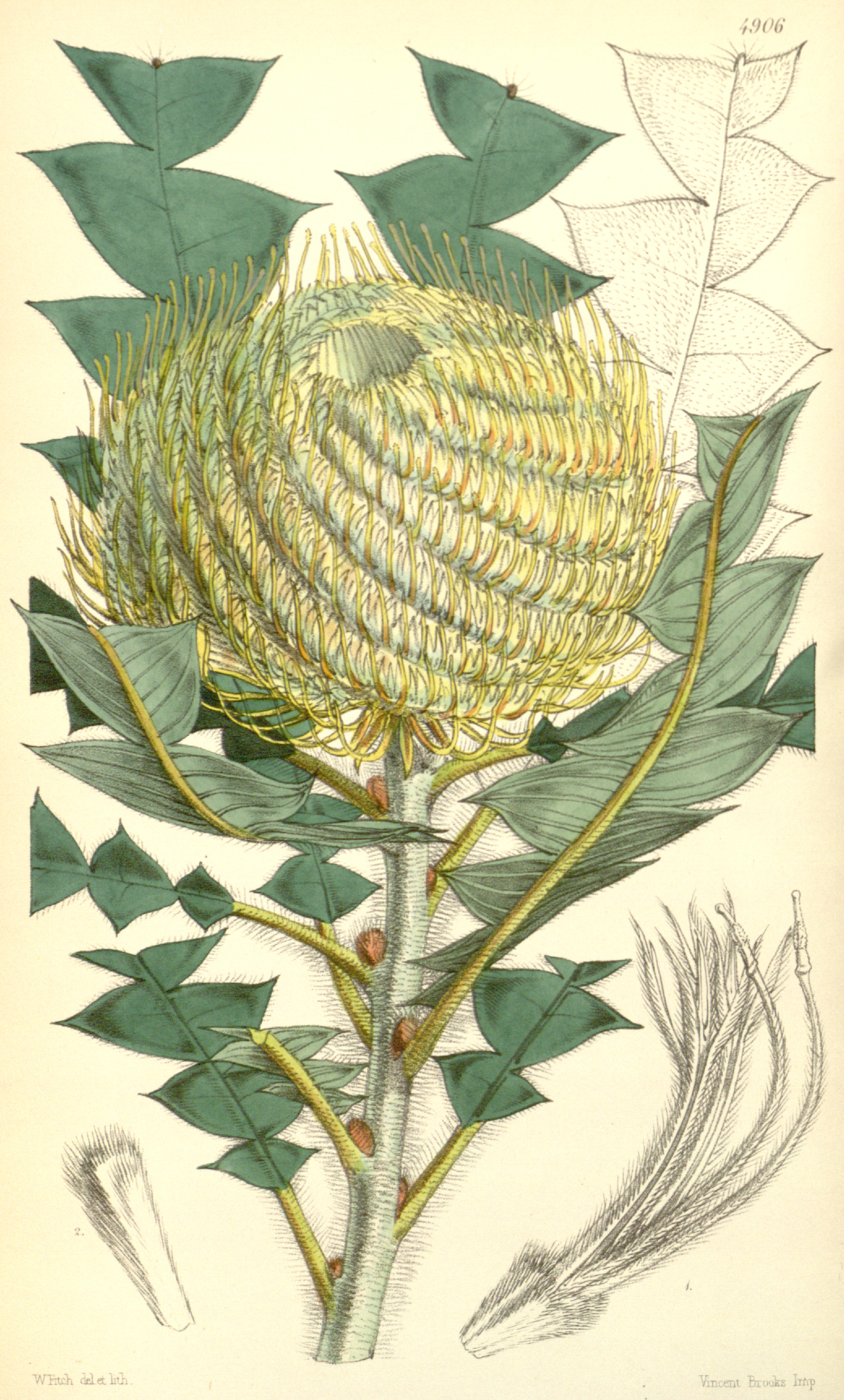 This is Plate 4906 from Volume 82 of Curtis's Botanical Magazine, entitled BANKSIA Victoriæ. Victorian Banksia. The plant depicted is Banksia victoriae (Woolly Orange Banksia).